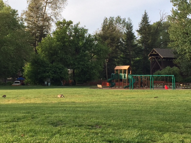 Park with covered bridge in background